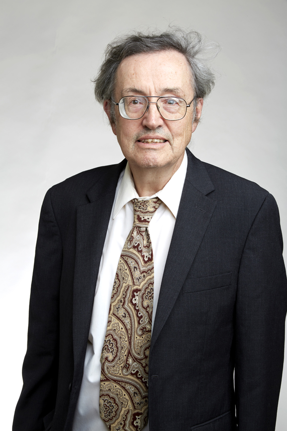 Robert Howard Crabtree is a British-American chemist. He is serving as Whitehead Professor of Chemistry at Yale University in the United States. He is a naturalized citizen of the United States. Crabtree is particularly known for his work on "Crabtree's catalyst" for hydrogenations, and his textbook on organometallic chemistry Attribution: The Royal Society